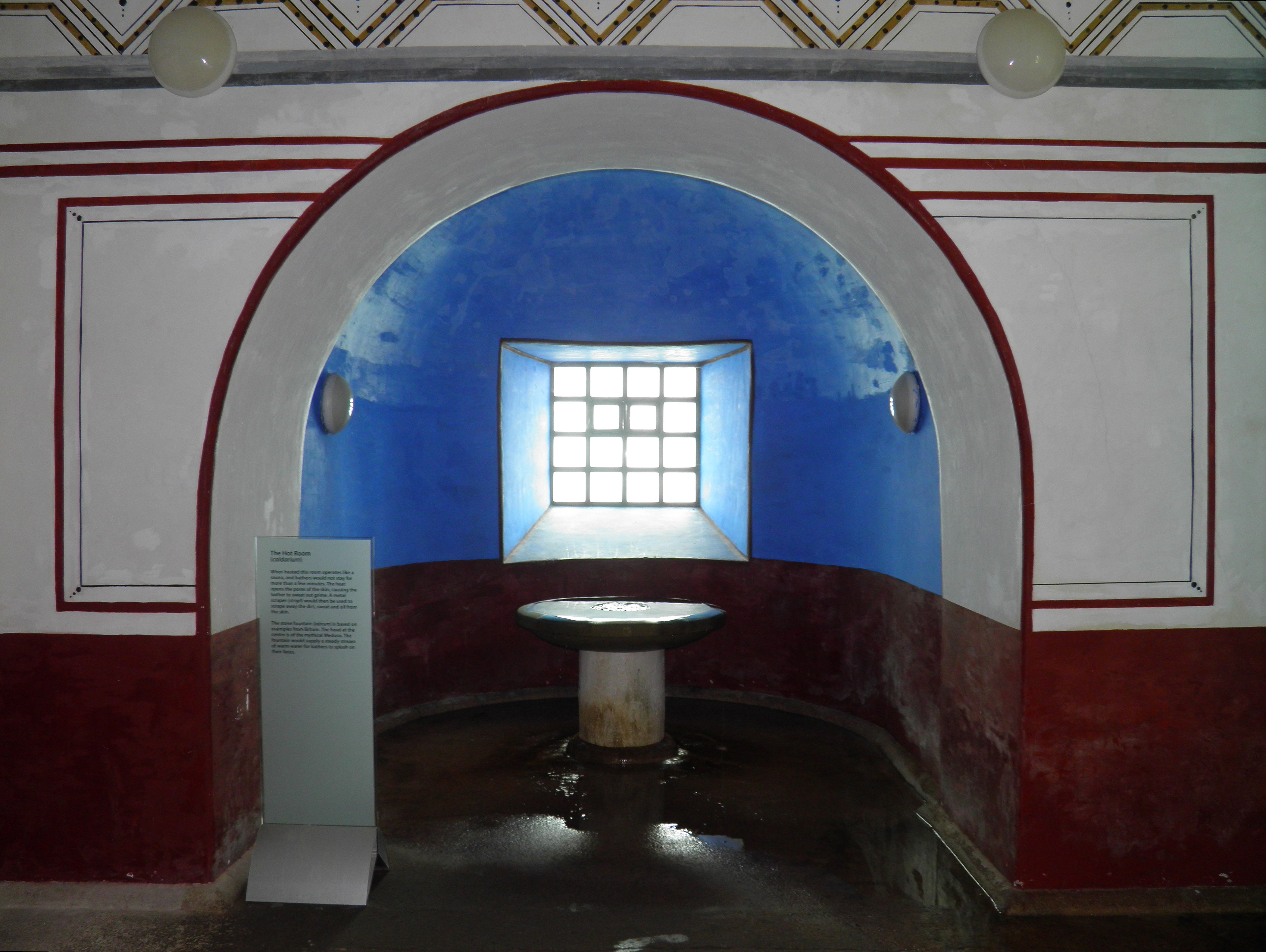 The replica Roman bath house at Segedunum fort in Wallsend